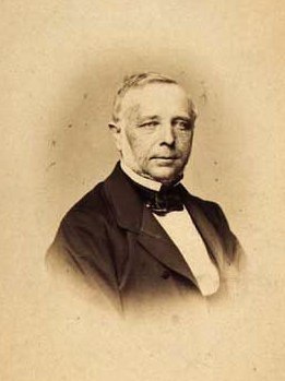 Ernst Frederik August Bilsted, Danish landowner and høhjægermester